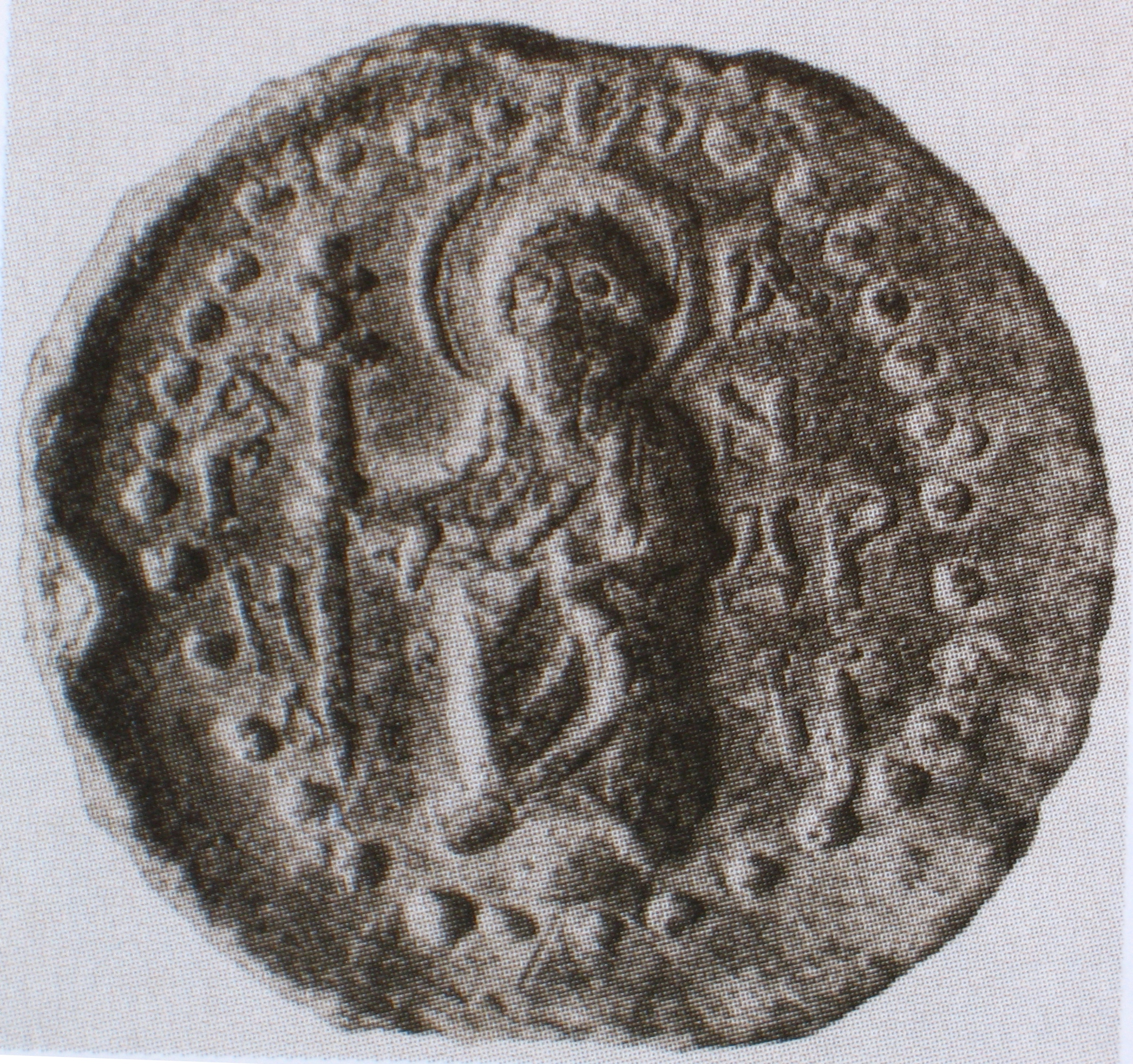 The seal of Svjatoslav Vsevolodovich.